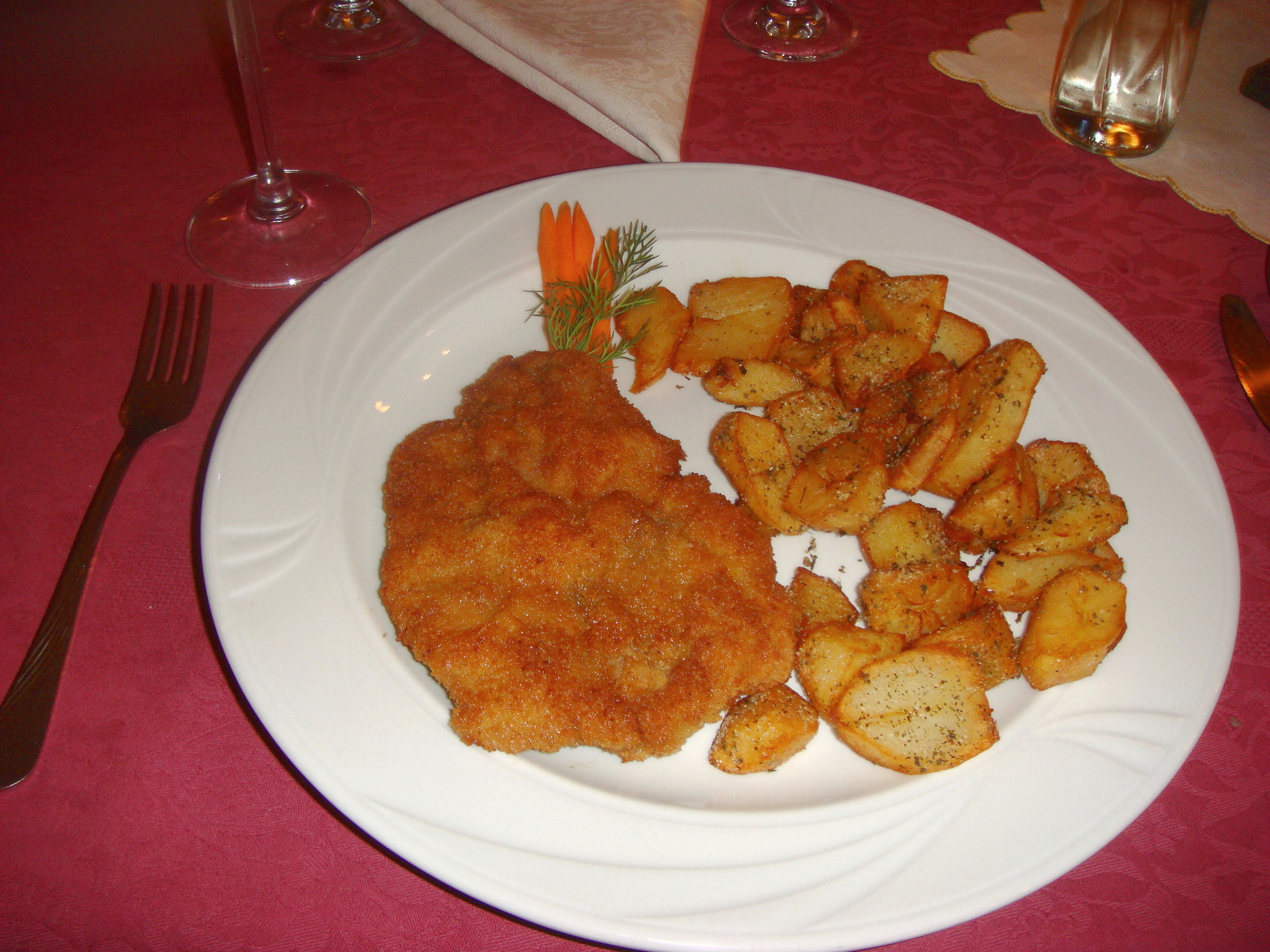 Bill had kotlet schabowy, a breaded pork chop.